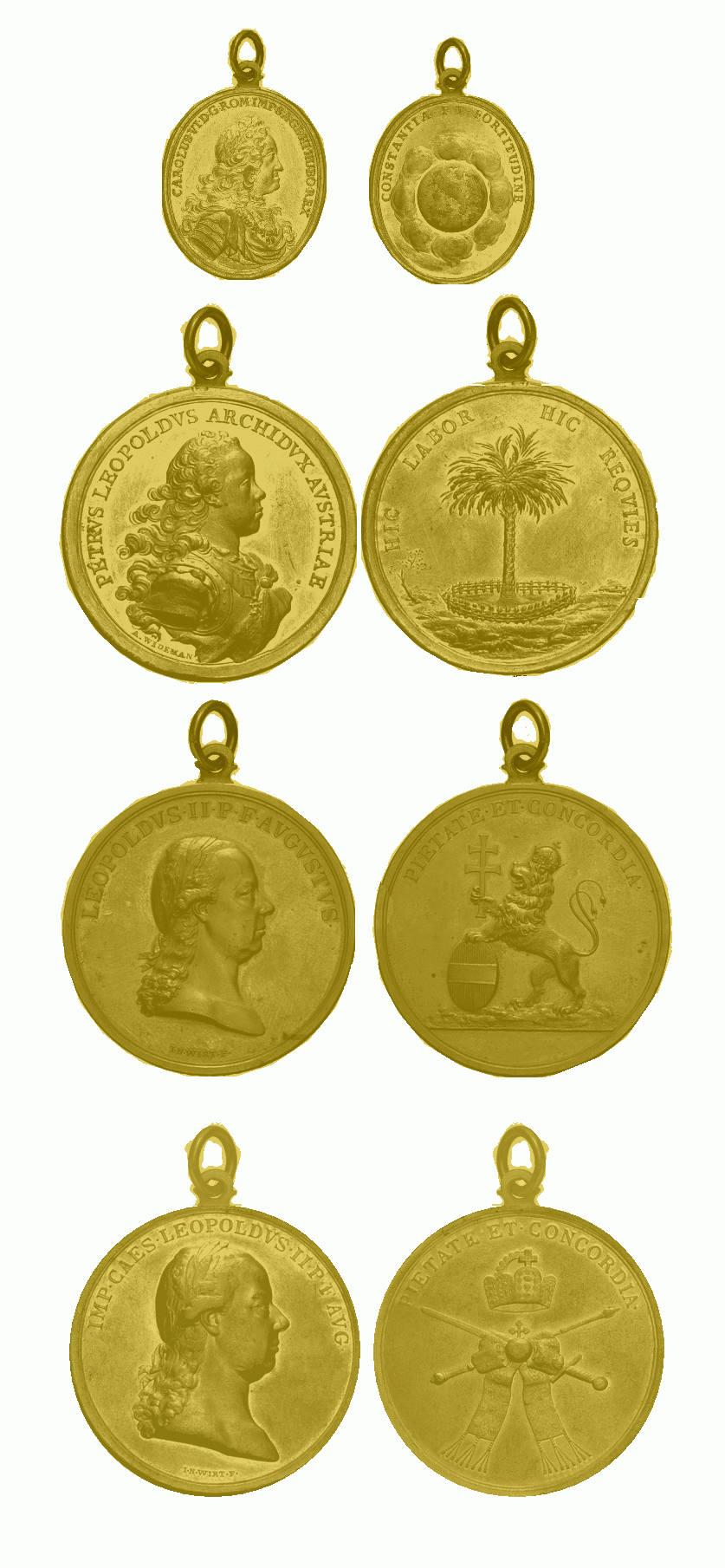 Medals of Austria